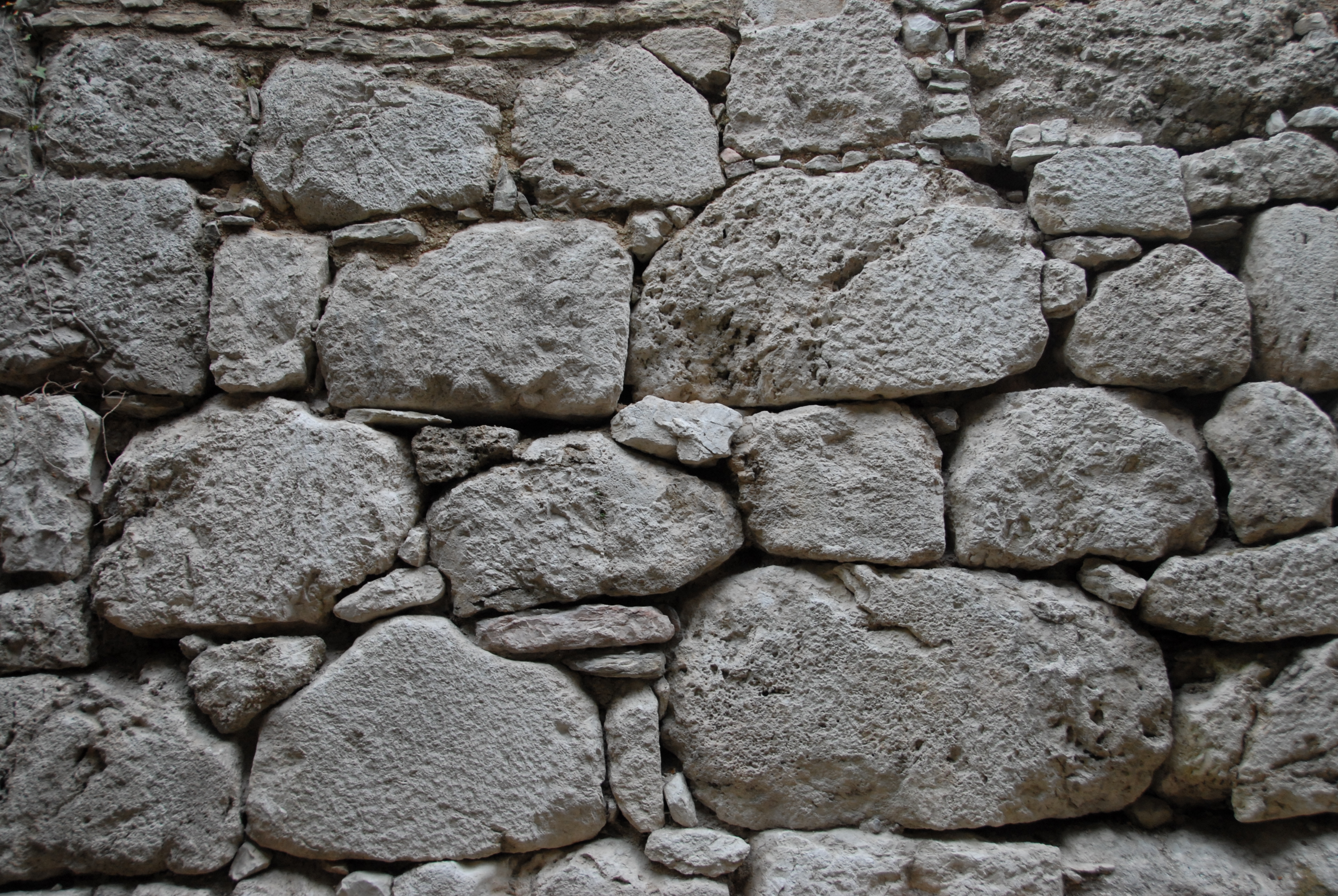 Tratto di Mura Preromane lungo Via Gattapone opera in blocchi irregolari